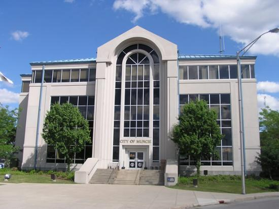 City Hall building in downtown Muncie, Indiana. Taken by K. Paul Mallasch, 2005.